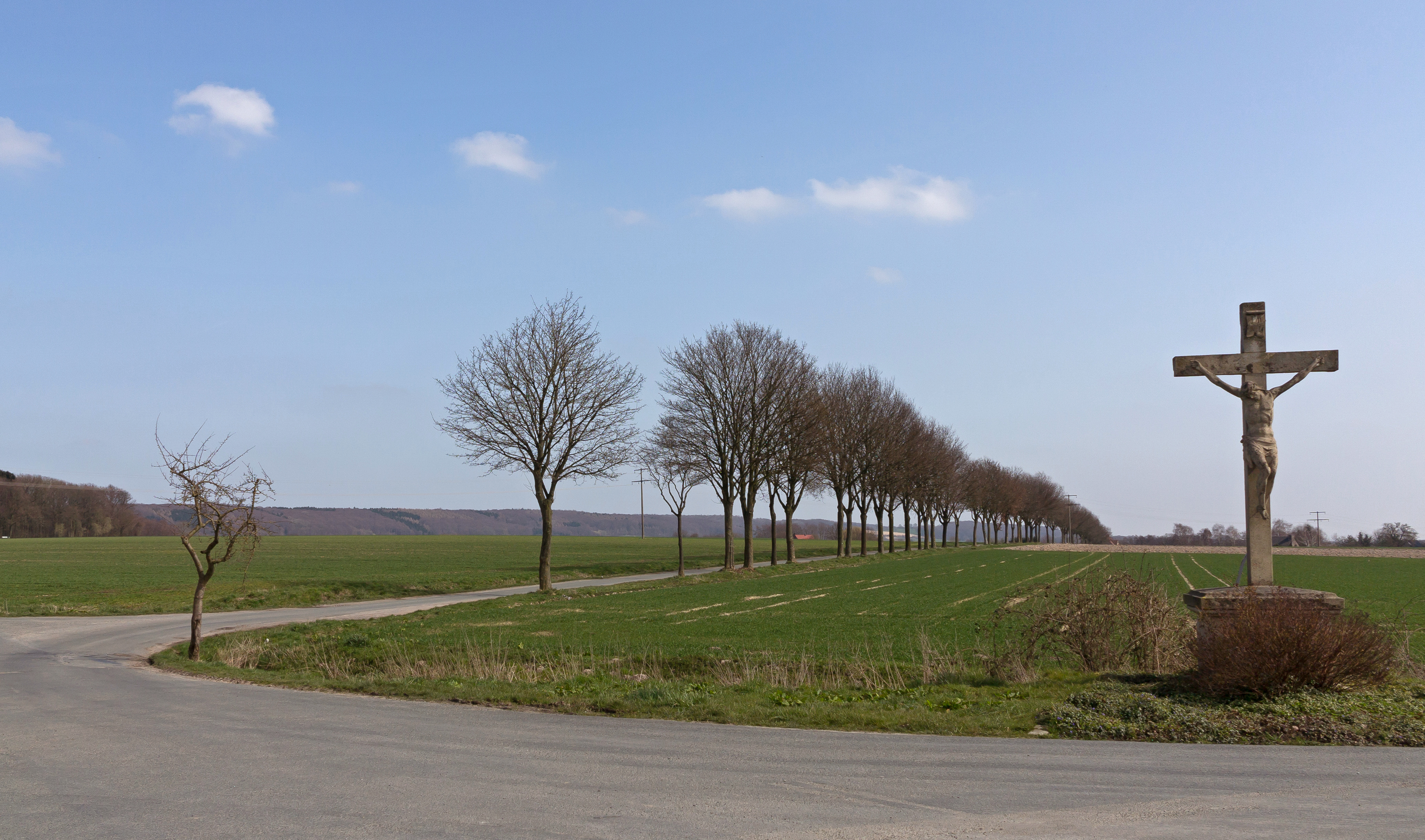 Uphoven, Crucifixion of Jesus